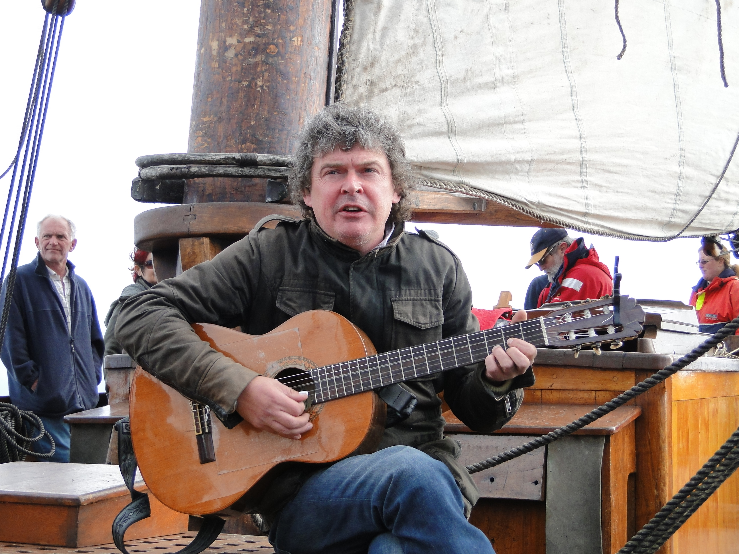 Irish singer-songwriter John Spillane performing on the deck on the "Enterprize", at the 2010 National Celtic Festival, Portarlington, Victoria, Australia.